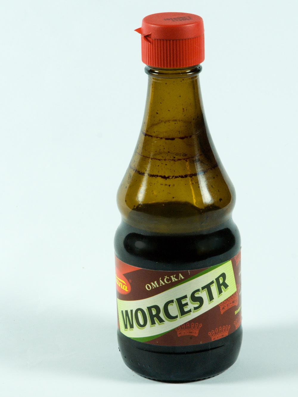 Worcestershire sauce